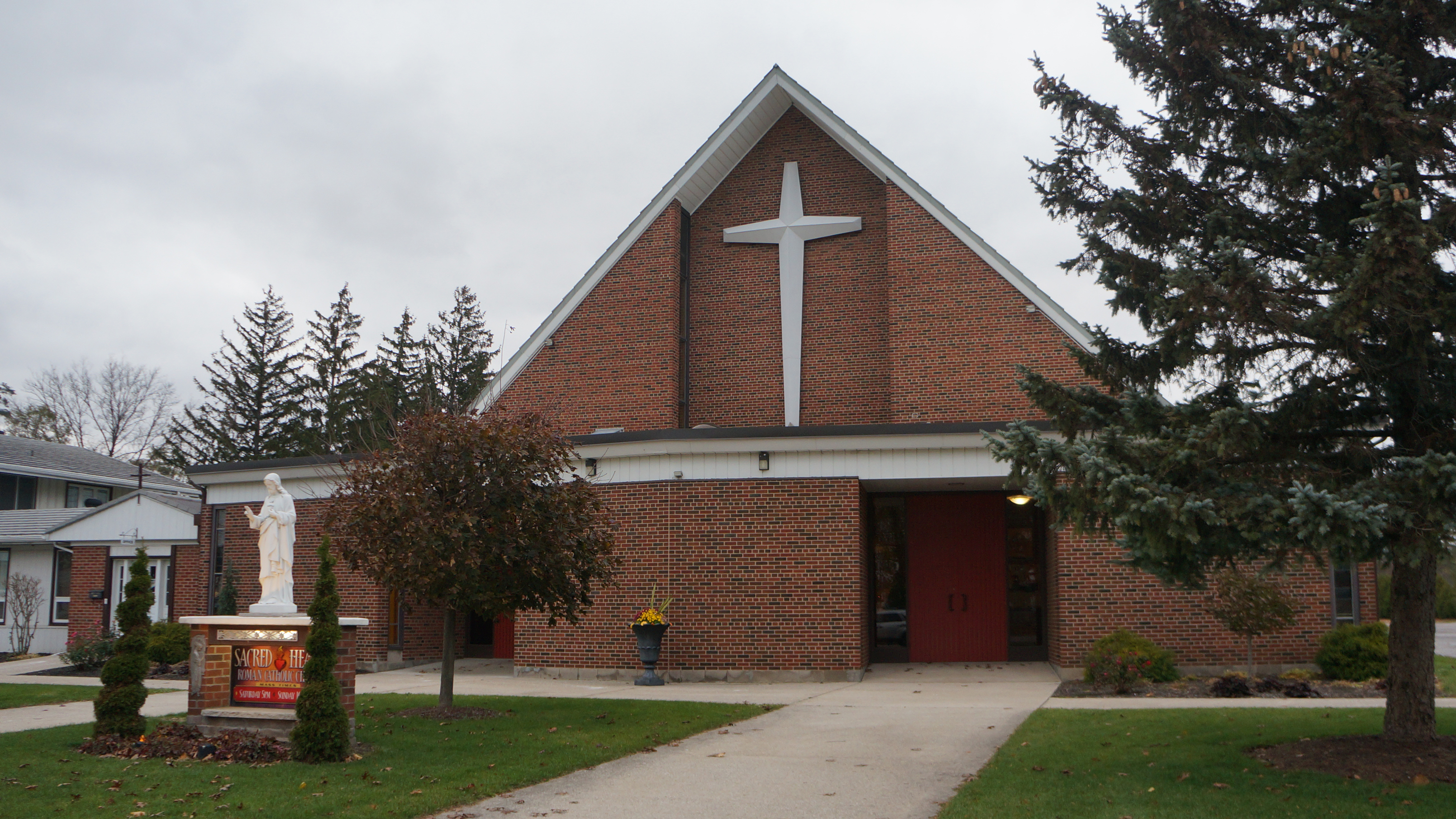 Sacred Heart Roman Catholic Church in Langton, Ontario